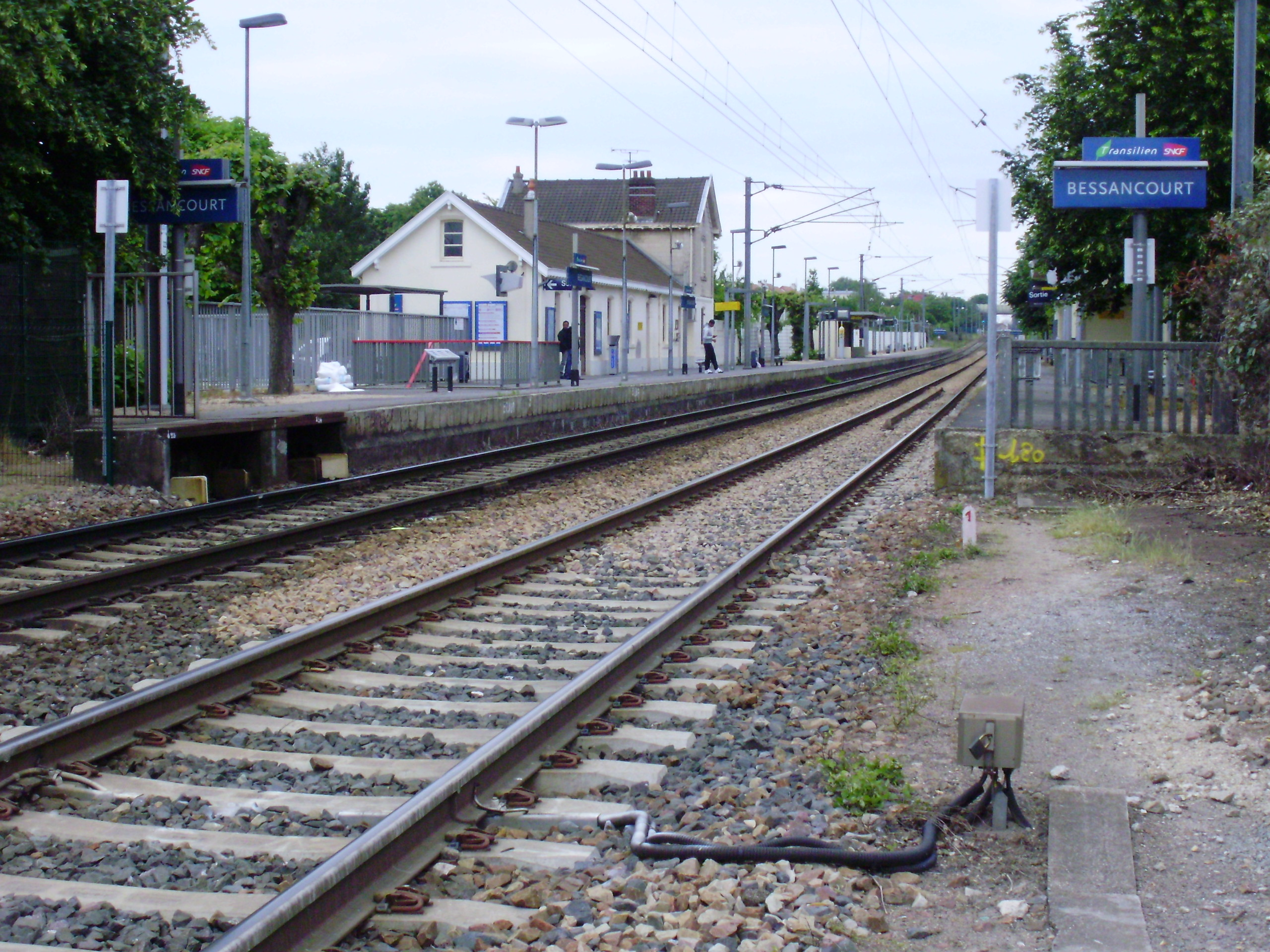 Bessancourt station, Val-d'Oise, France (view towards Paris from the level crossing)